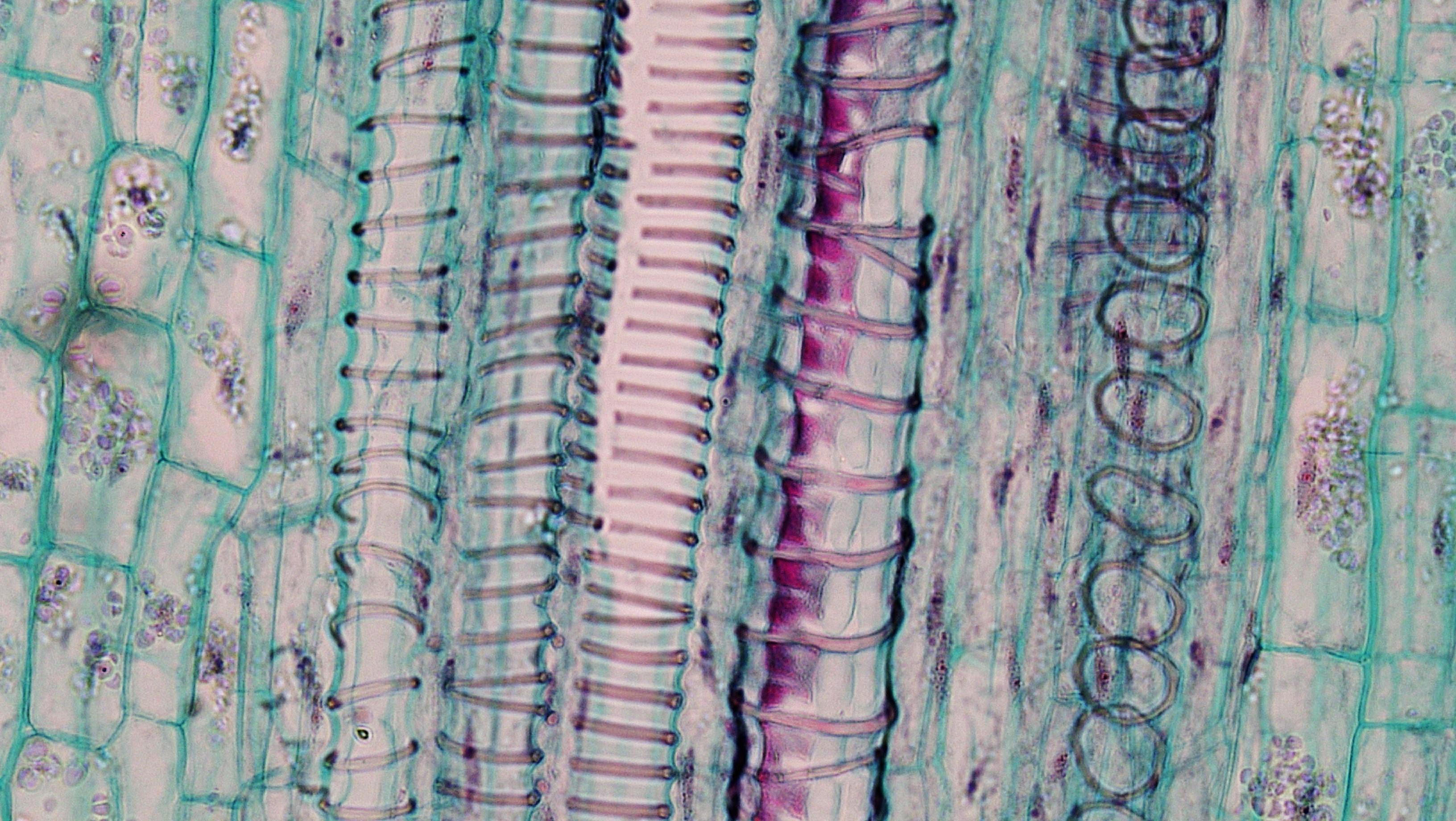 long section: Cucurbita stem magnification: 400x Berkshire Community College Bioscience Image Library Walls of xylem vessels have lignin free pits and lignin thickenings that form rings, spirals, networks and solid blocks. Between the xylem and phloem are a few regularly arranged layers of elongated cambium cells.